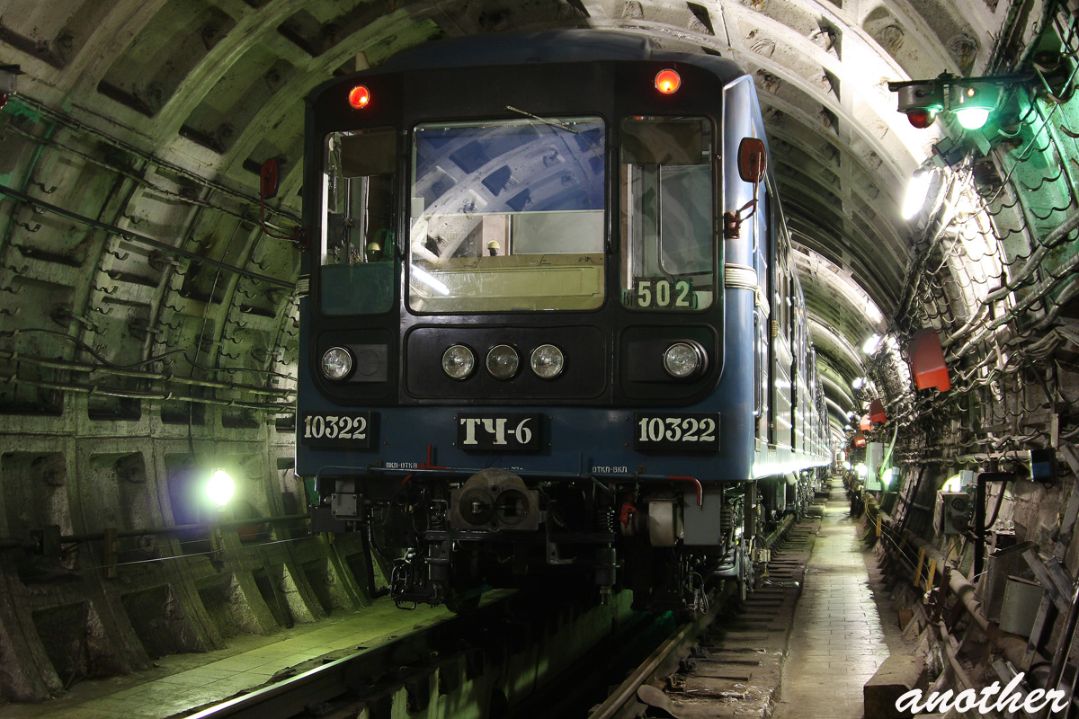 Train in maintenance service point